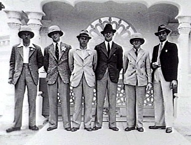 Colombo, Ceylon. 1937-08-04. Left to right: Les Clisby, Wal Skinner, Arthur Hubbard (later Wing Commander RAF & RAAF, DSO, DFC) Bert Mcghie, Kev Walsh, Jack Lewis. Hubbard and others in the group were on their way to England to take up short service commissions with the RAF.